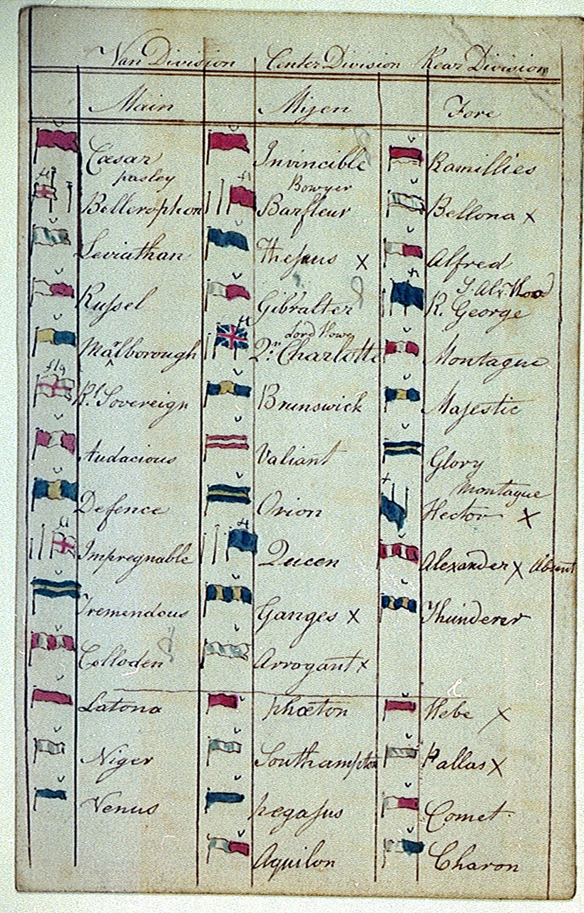 Table of flags worn by British ships at the Battle of the Glorious First of June, 1794; watercolour